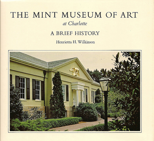 Image from E-Sylum, 10/9/2011, article #11, original article at